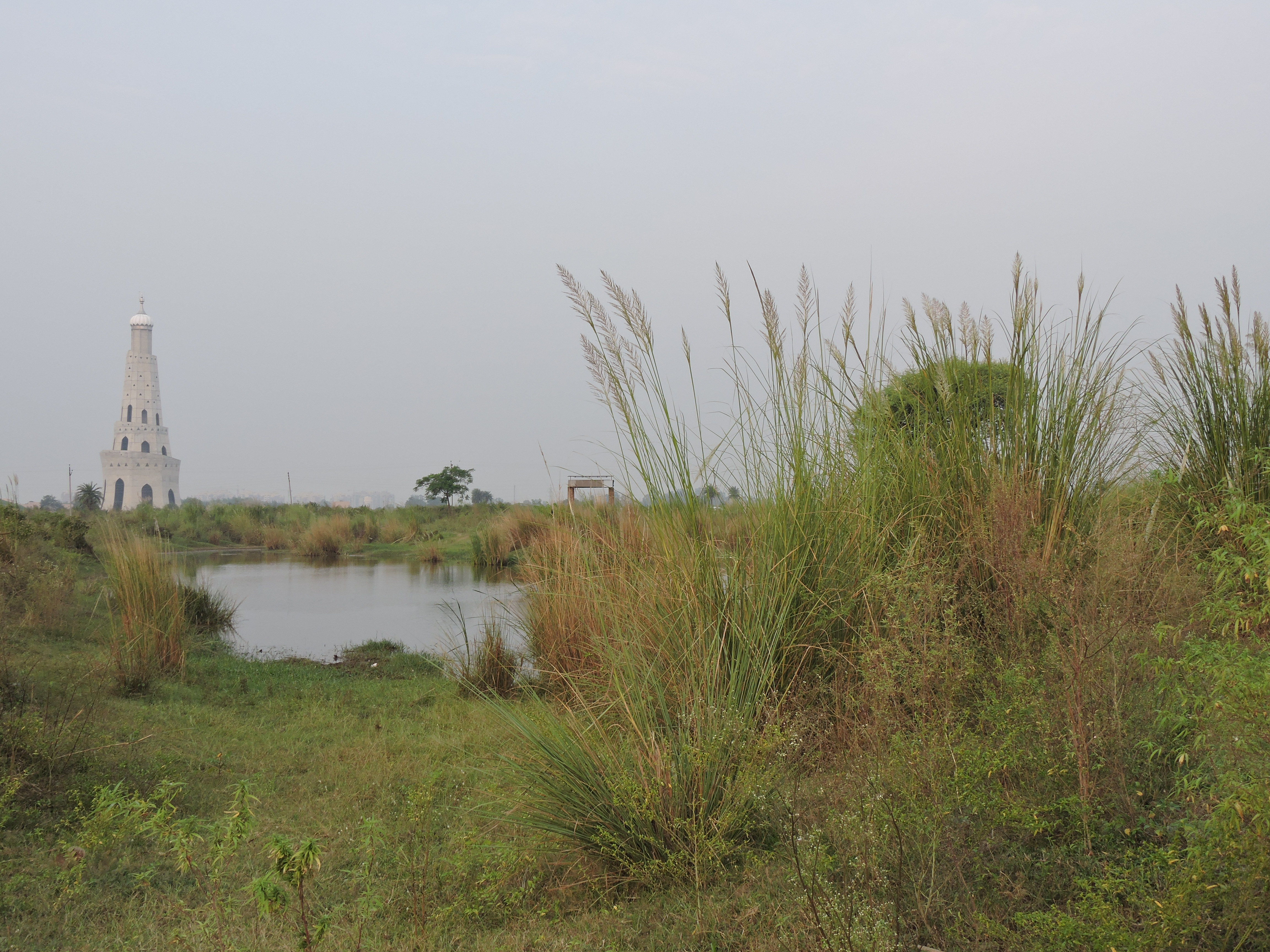 Village Pond of ,Chappar Chiri, Mohali, Punjab, India